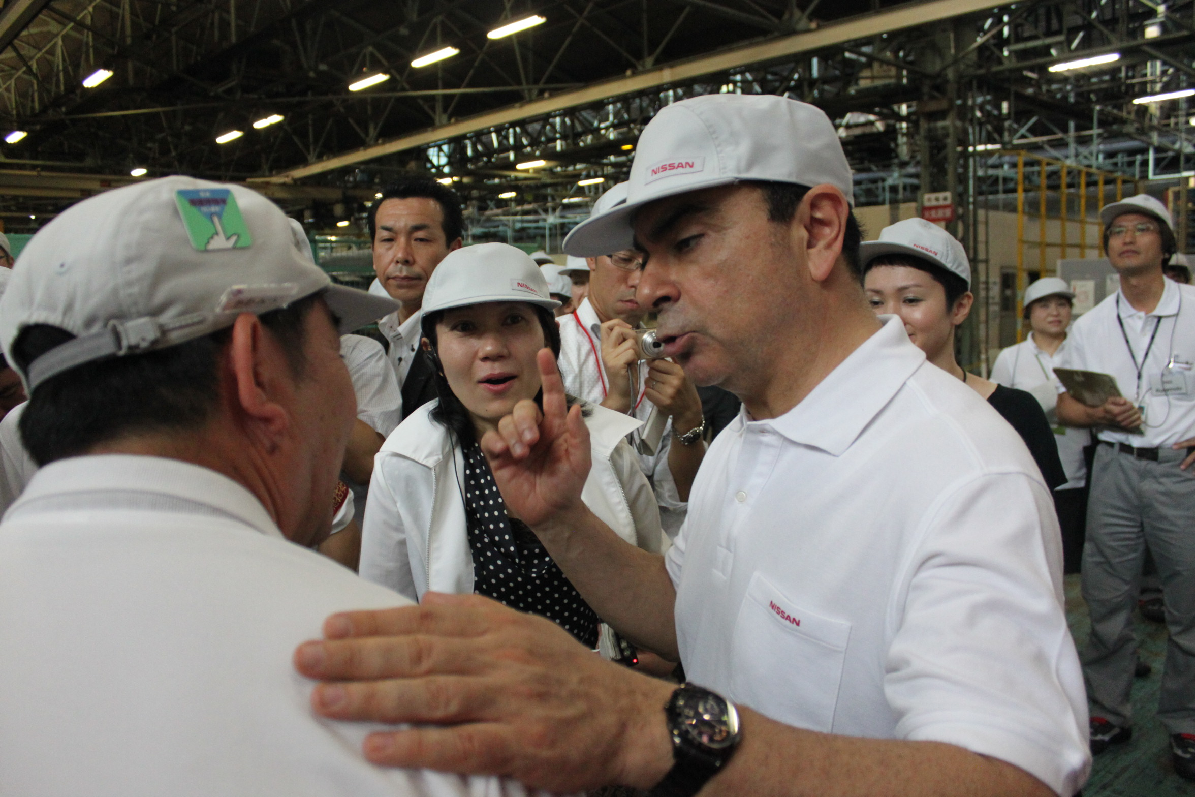 Carlos Ghosn at Nissan’s Honmoku Wharf, a logistics hub about 10 km southeast of Nissan’s global headquarters in Yokohama, July 16 2011. Picture by Bertel Schmitt